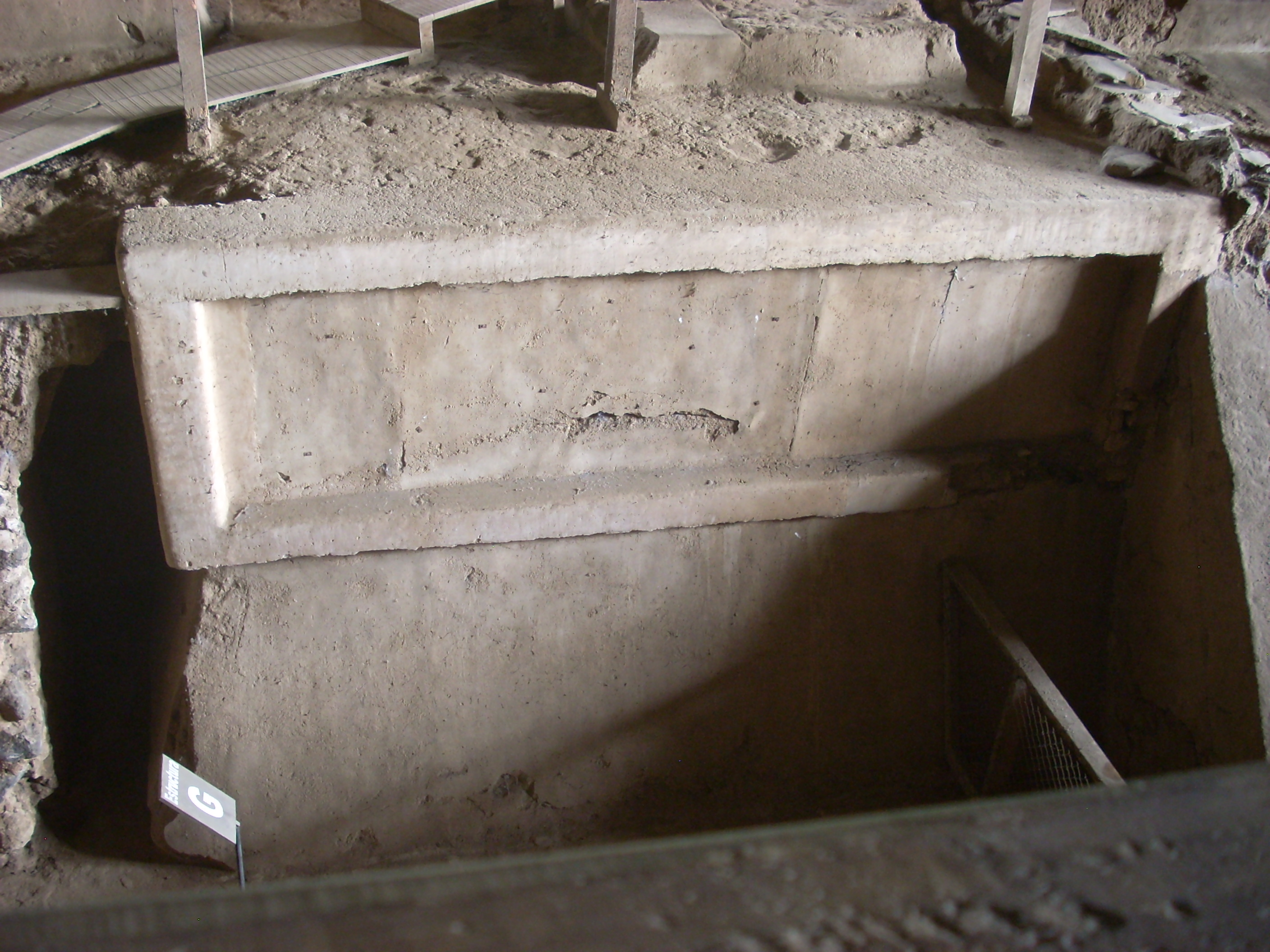 Talud-tablero architecture in the Acropolis at Kaminaljuyu Maya ruins, Guatemala City.